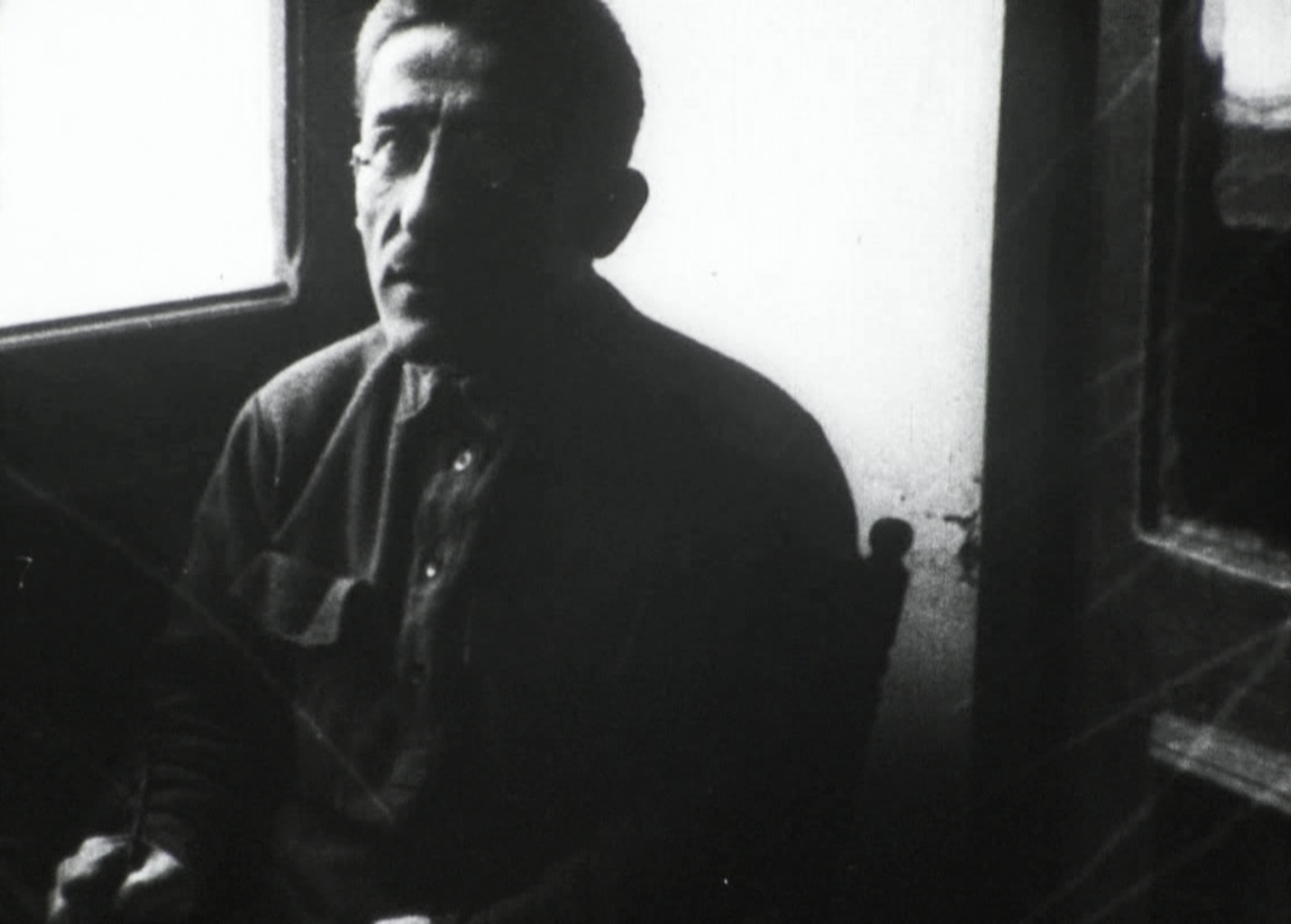 Sargis Kasyan